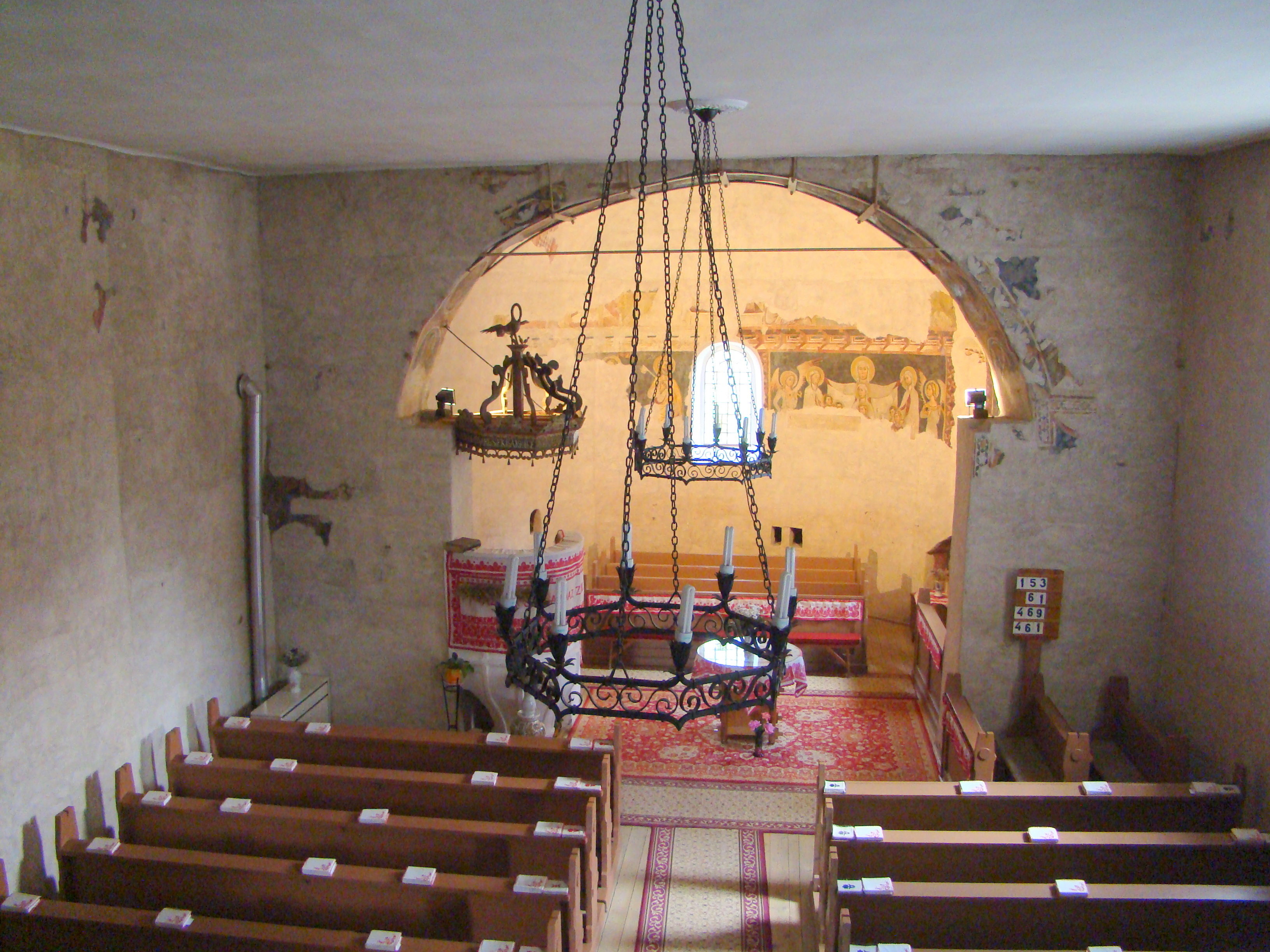 Reformed church in Sântana de Mureș, Mureș county, Romania